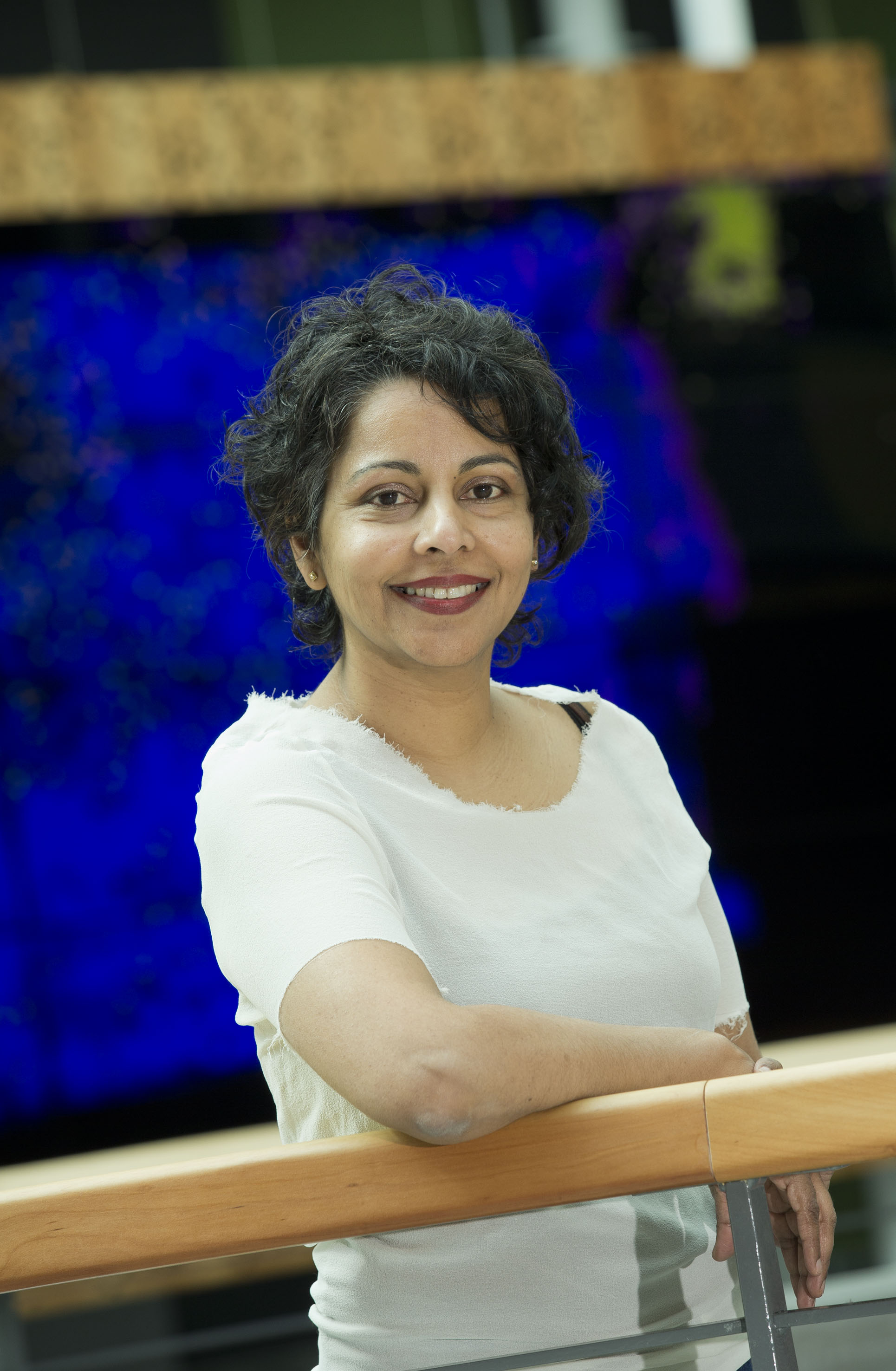 Photo of Rhema Vaithianathan taken in 2014.